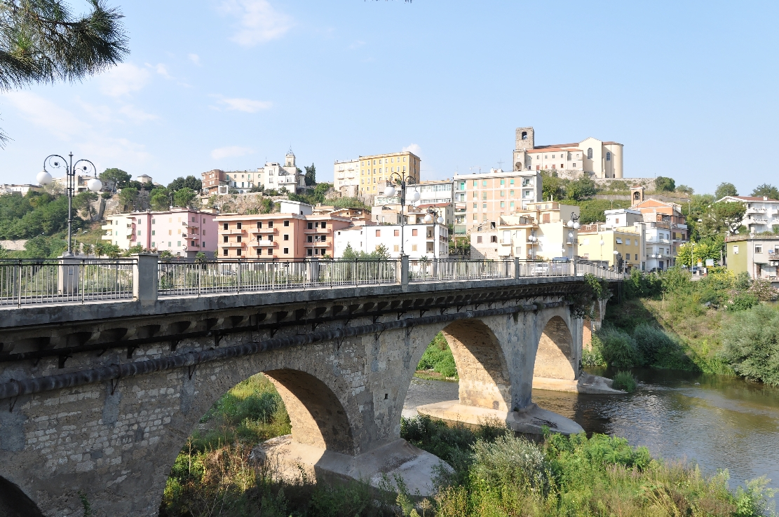 Pontecorvo (Italy)2012 Dieses Foto entstand in Zusammenarbeit mit Stadtbesichtigungen.de Die Seiten Stadtbesichtigungen.de, der dazugehörige Reise Blog sowie die Facebookseite: Stadtbesichtigungen Rom dürfen dieses Bild für Ihre Veröffentlichungen ohne den Hinweis auf Wikipedia, Commons bzw der Lizenz verwenden. Die Verantwortlichen habe von mir (Ra Boe) die Originaldaten zur freien Verfügung übermittelt bekommen. Foro Appio Mansio Hotel